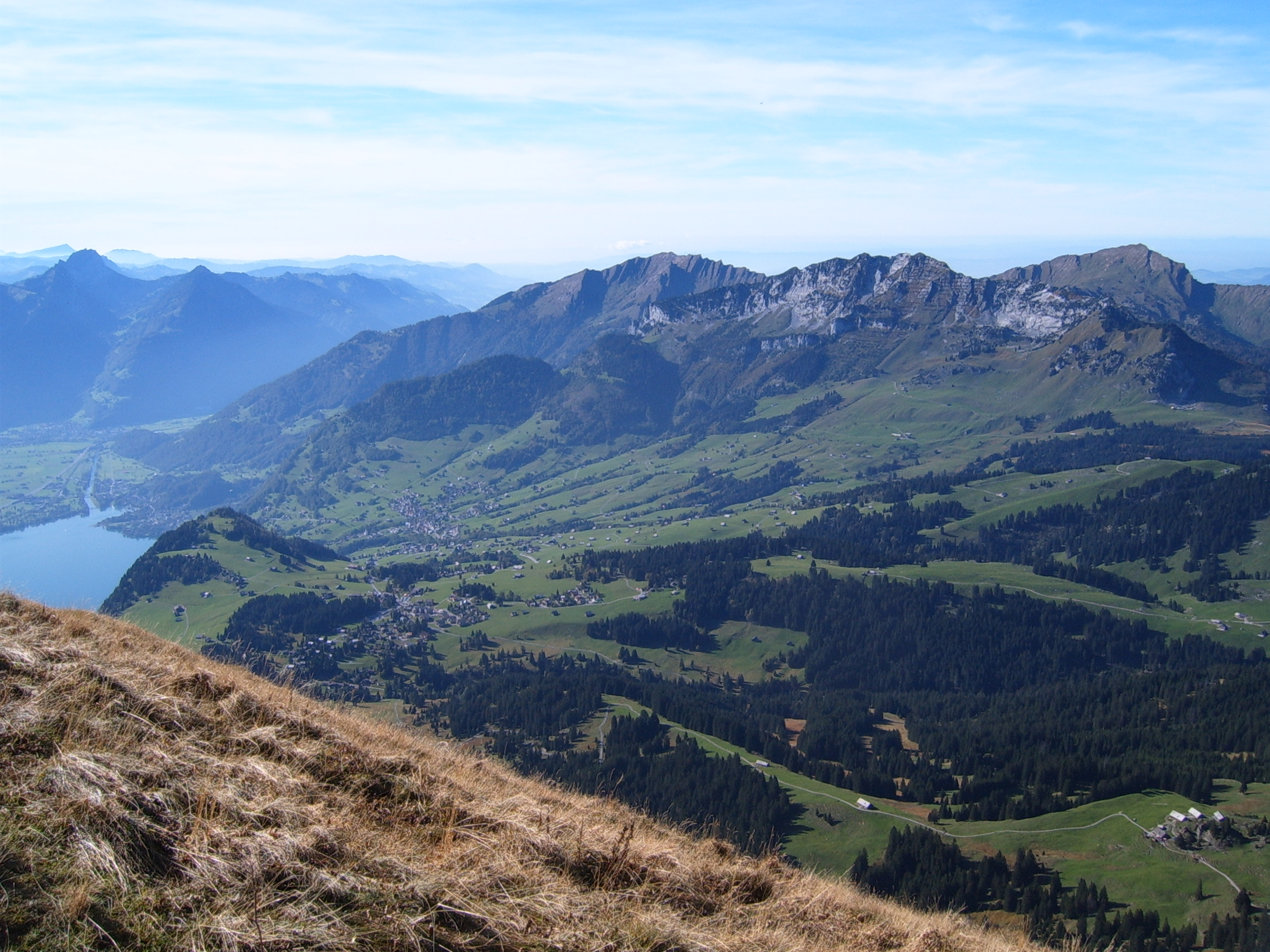 Amden, seen from Leistchamm (Canton of St. Gallen, Switzerland)